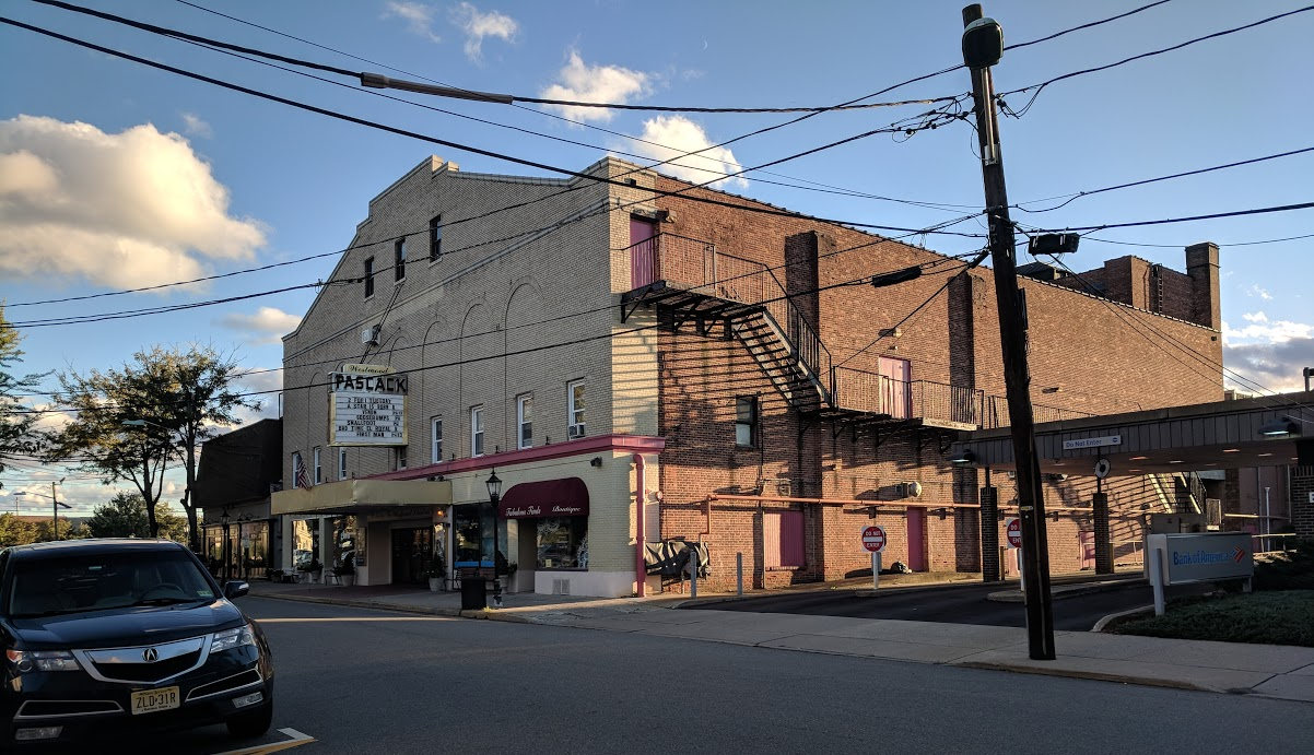 This is the Westwood Cinema in Westwood, NJ, on October 13, 2018.